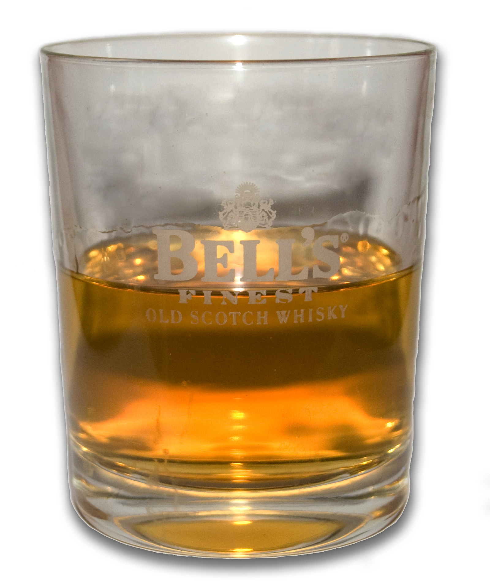 A glass of Bell's Scotch whisky.